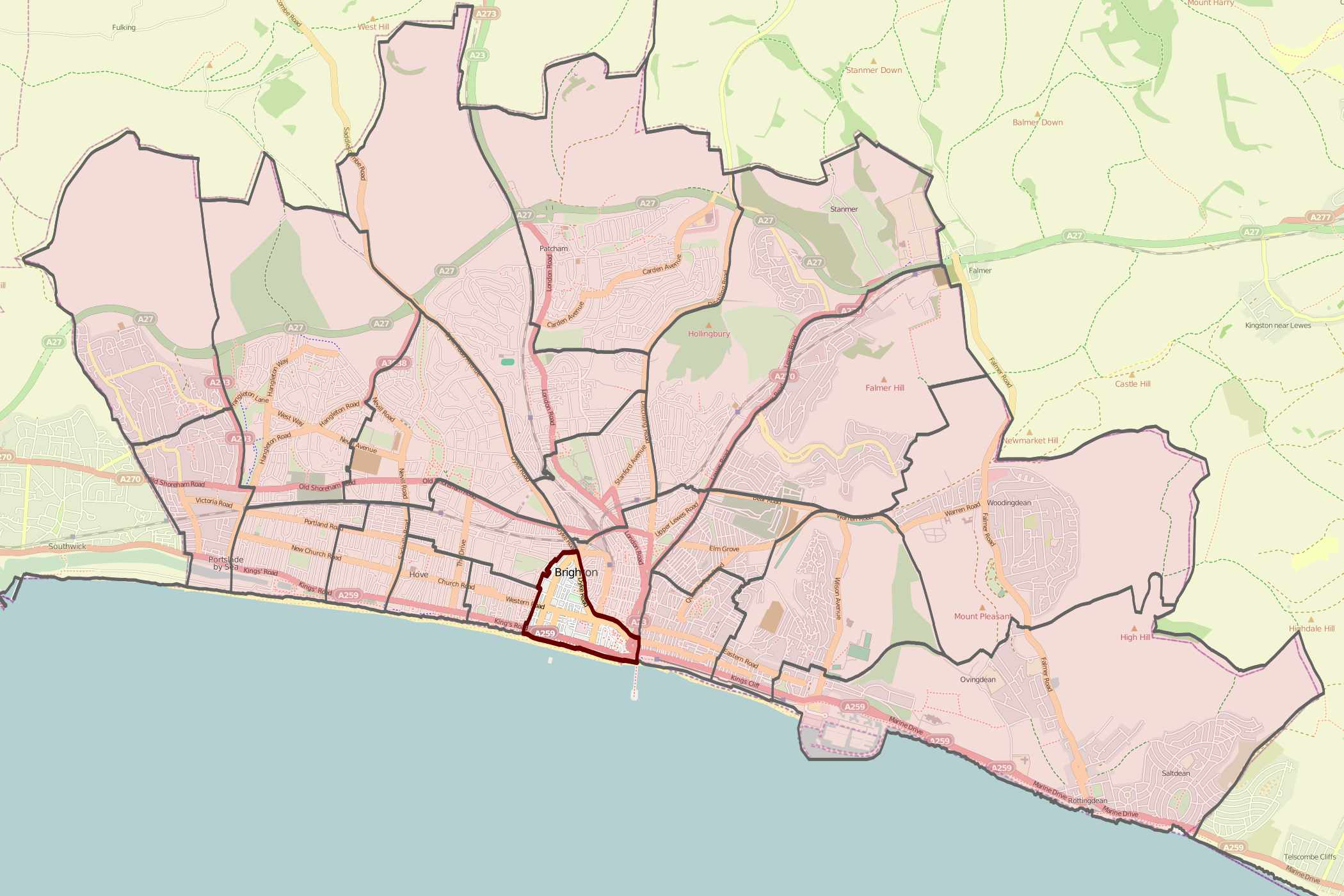 Map of Brighton and Hove wards with one ward highlighted